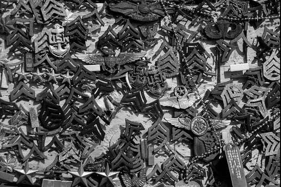 Memorial to Marines who fought in the Battle of Iwo Jima: A small, wooden board staked into the ground next to the flag-raising site on Mount Suribachi’s summit carries rank insignia and military devices visitors have left to pay homage to those who fought the battle. The board can be found behind the American memorial.